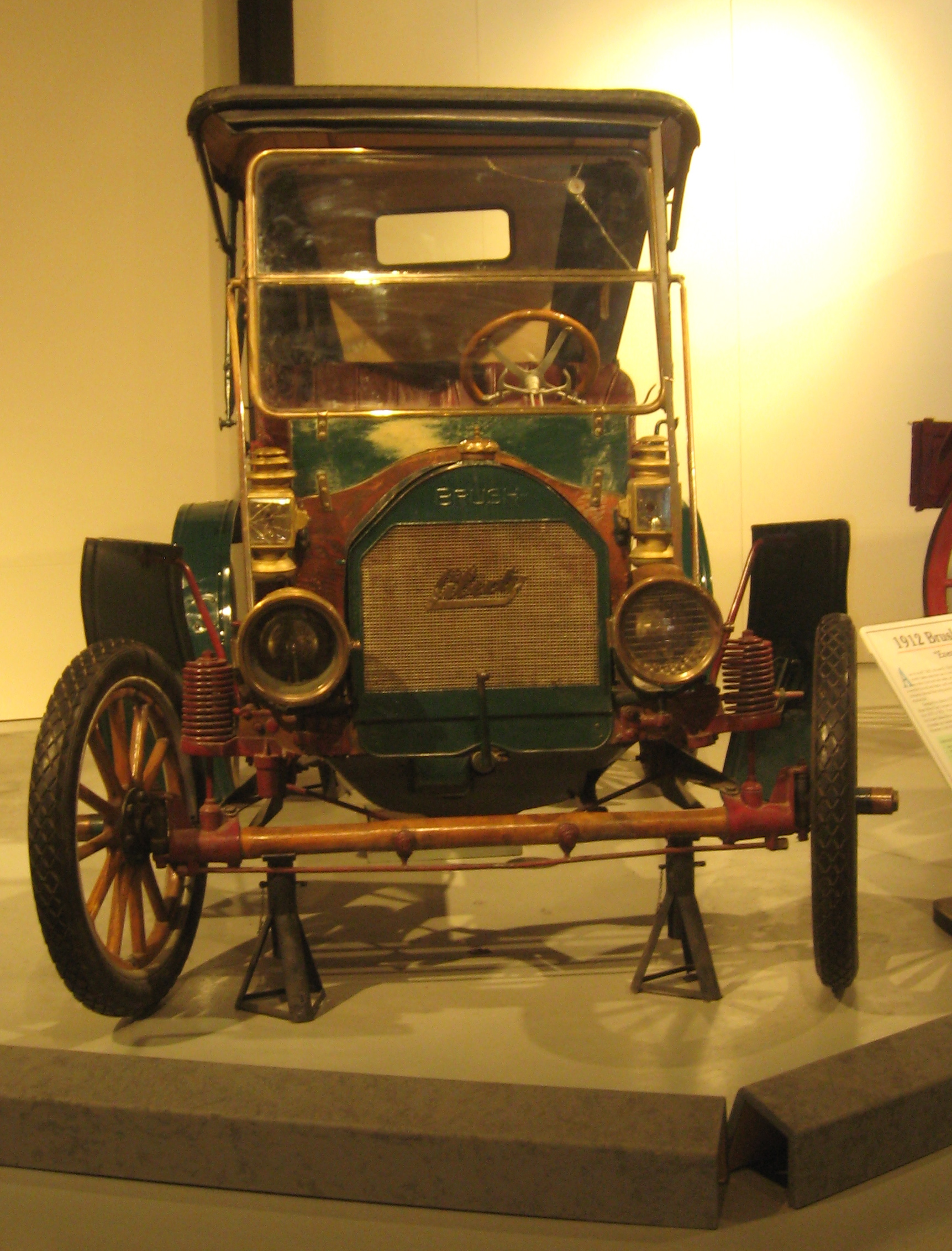 1912 Brush runabout, owned by a Saskatoon resident in the era. Shot at local museum.